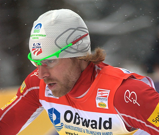 Andrew Newell at the Tour de Ski 2010 in Oberhof